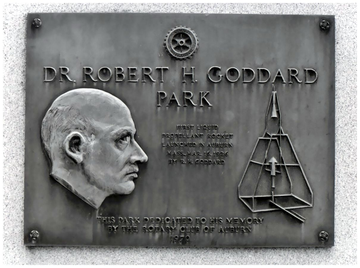 Bronze plaque in Auburn, Massachusetts, the town where Dr. Robert Goddard launched the first liquid-fueled rocket on March 16, 1926, in a park nearby dedicated to him by the Auburn Rotary club.